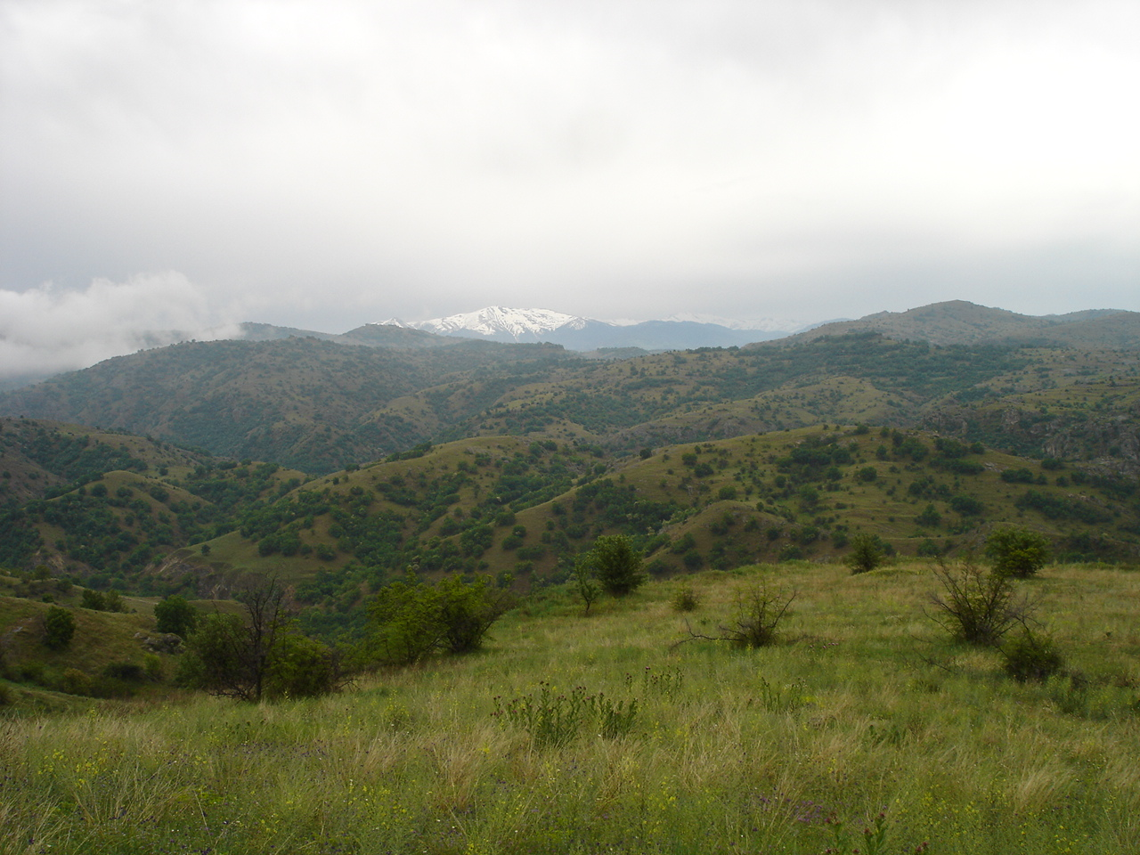 Mountain Nidze with Kajmakchalan peak in Mariovo region, Macedonia